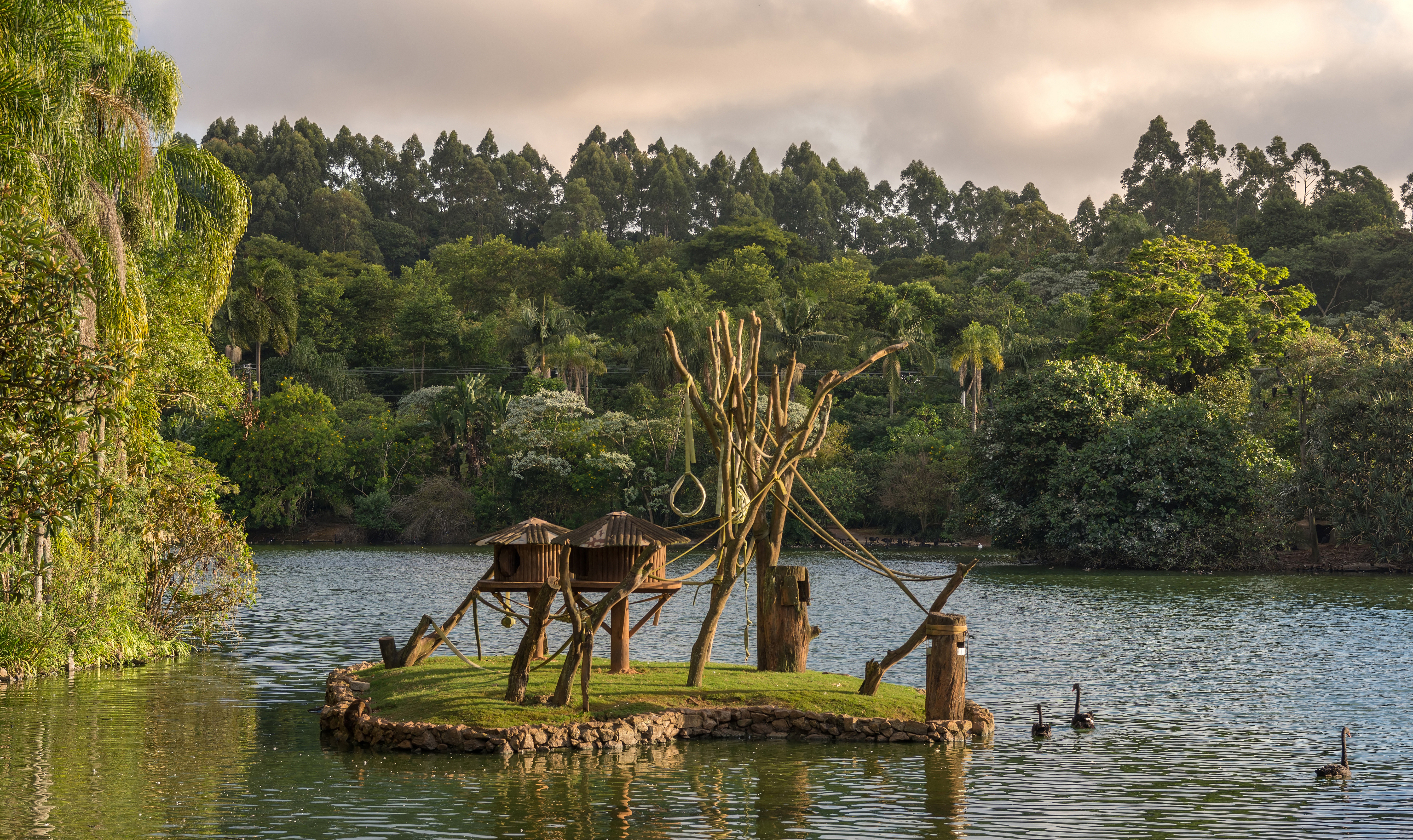 Monkey Island in São Paulo Zoo, Brazil